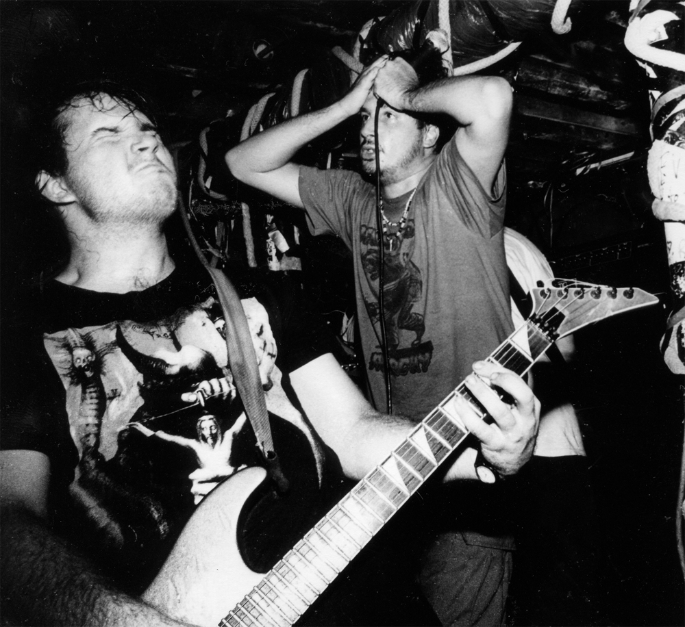 .Rio.again